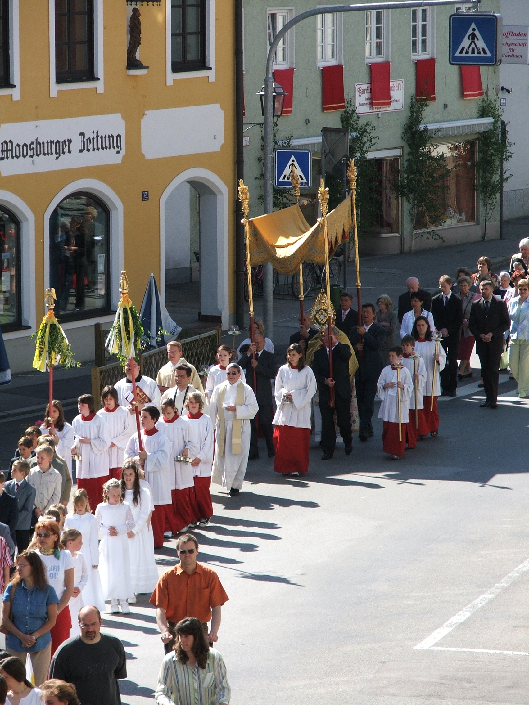 Corpus Christi Day (Fronleichnam) procession in Moosburg, Germany (2005).